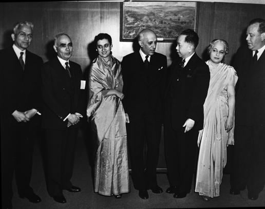 October 1949:Prime Minister Nehru talks with United Nations General Assembly President Romulo.